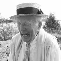 Photo of Alan Milliken Heisey Sr taken August 2, 2014 at 100th Anniversary Party for Breezy Point Cottage , Cognashene Ontario, Canada